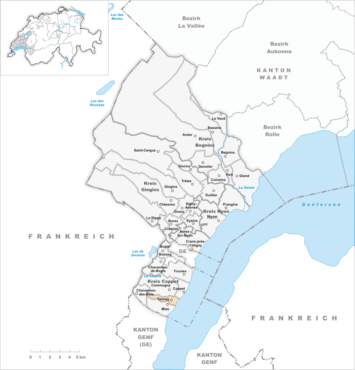 Municipality Tannay